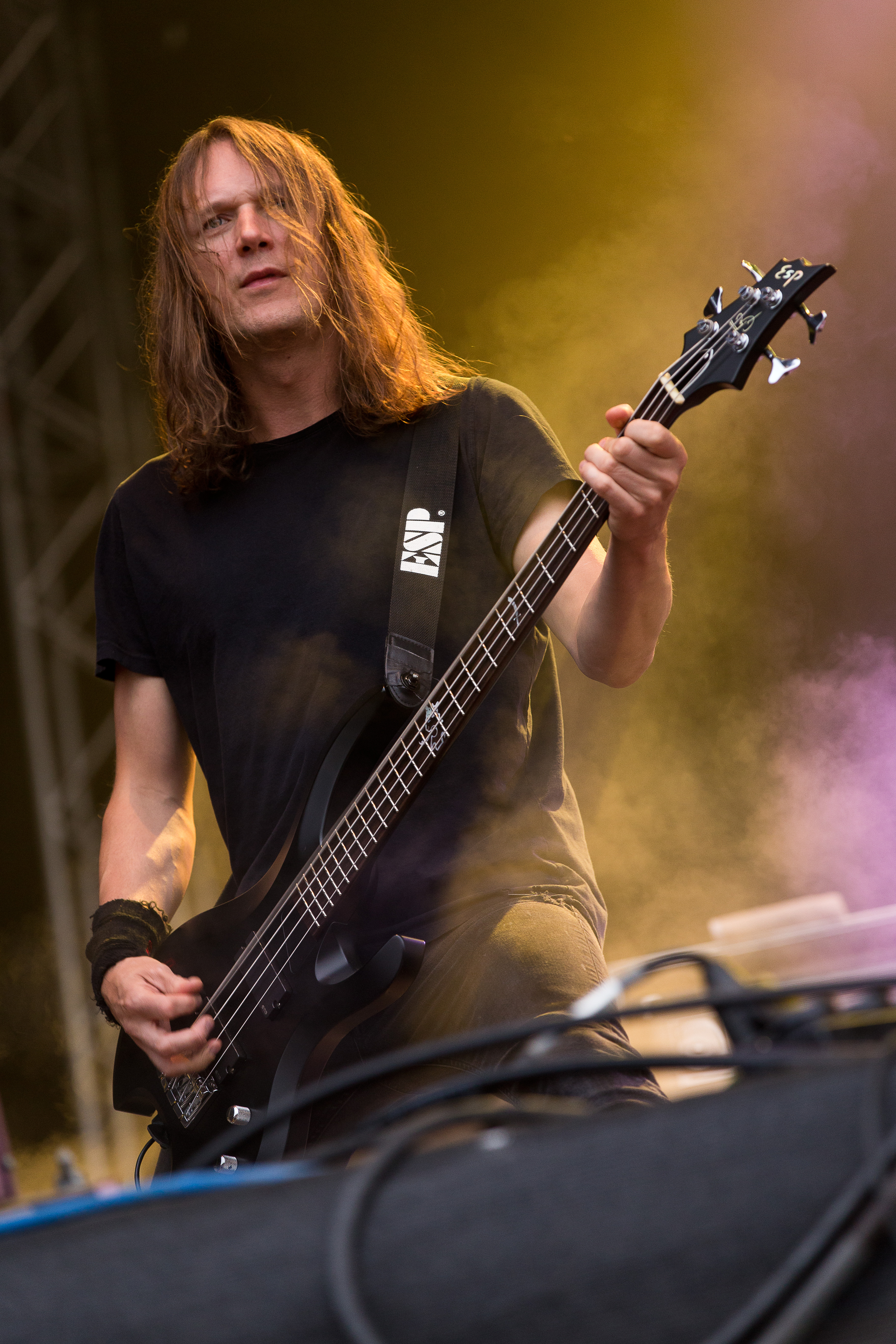 The Finnish melodic death metal band Children of Bodom at the Rockharz Open Air 2016 in Ballenstedt/Germany.